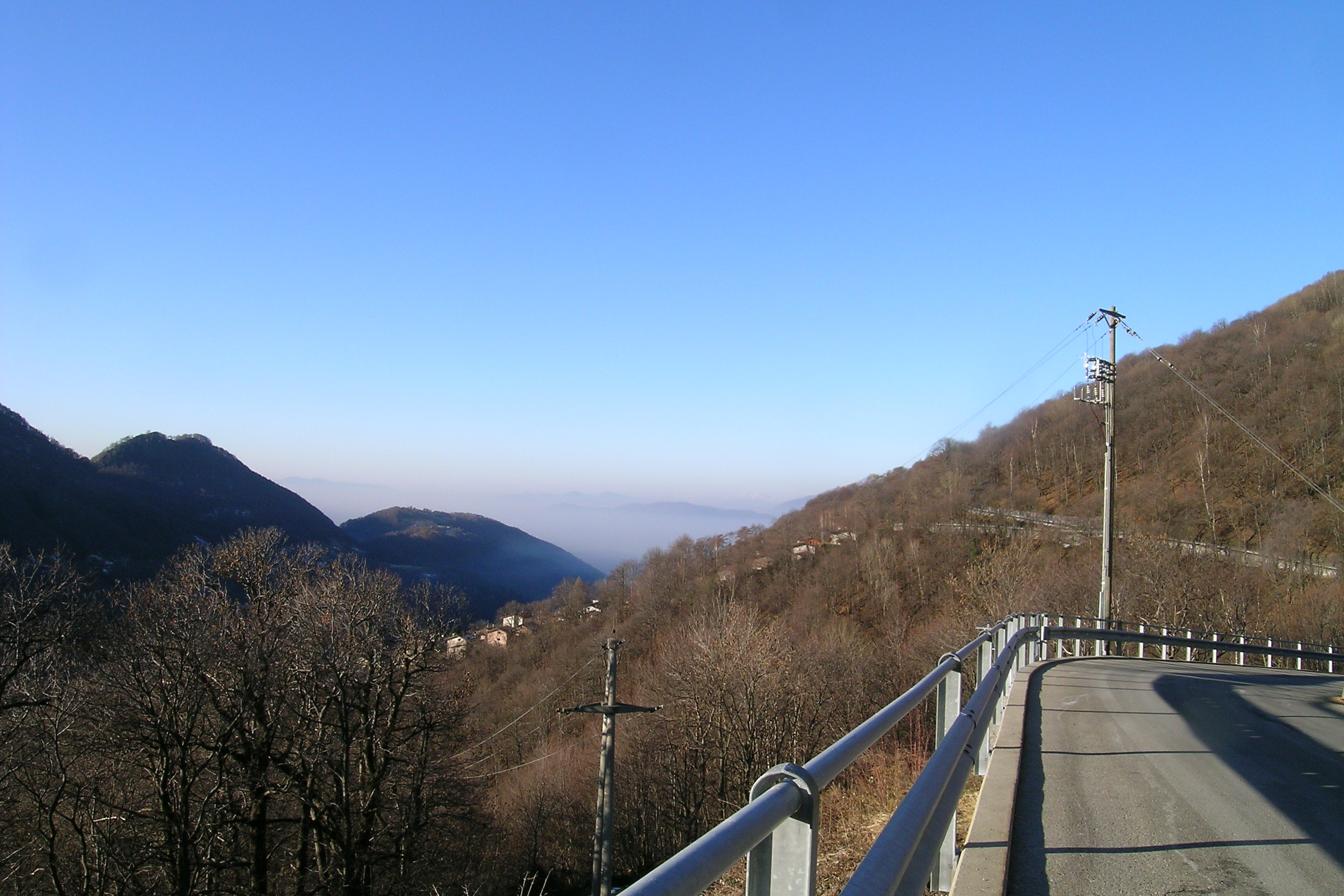 Isone village (not Isone municipality in Bellinzona district) in Valcolla, Ticino, Switzerland